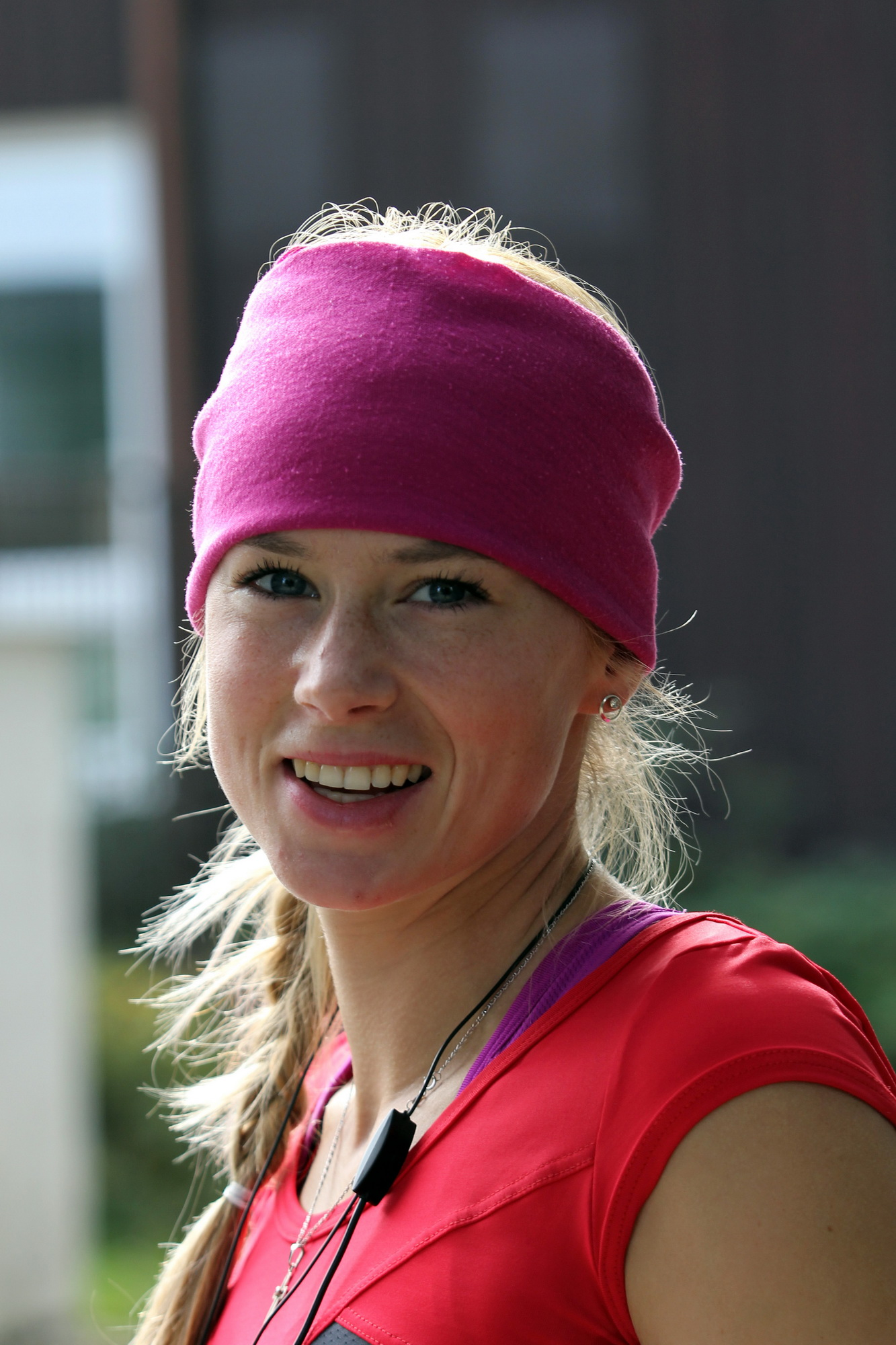 Barbora Tomešová at Summer Biathlon World Championchip 2011 Nové Město na Moravě